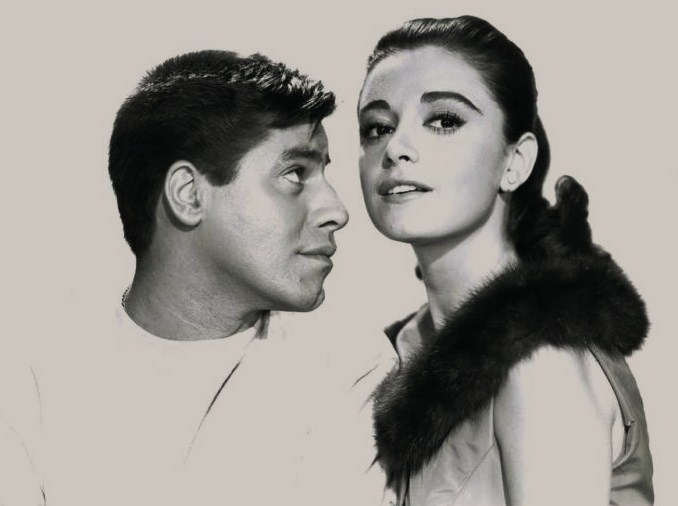 Jerry Lewis and Anna Maria Alberghetti in Cinderfella (1960) - publicity still (cropped : see source)